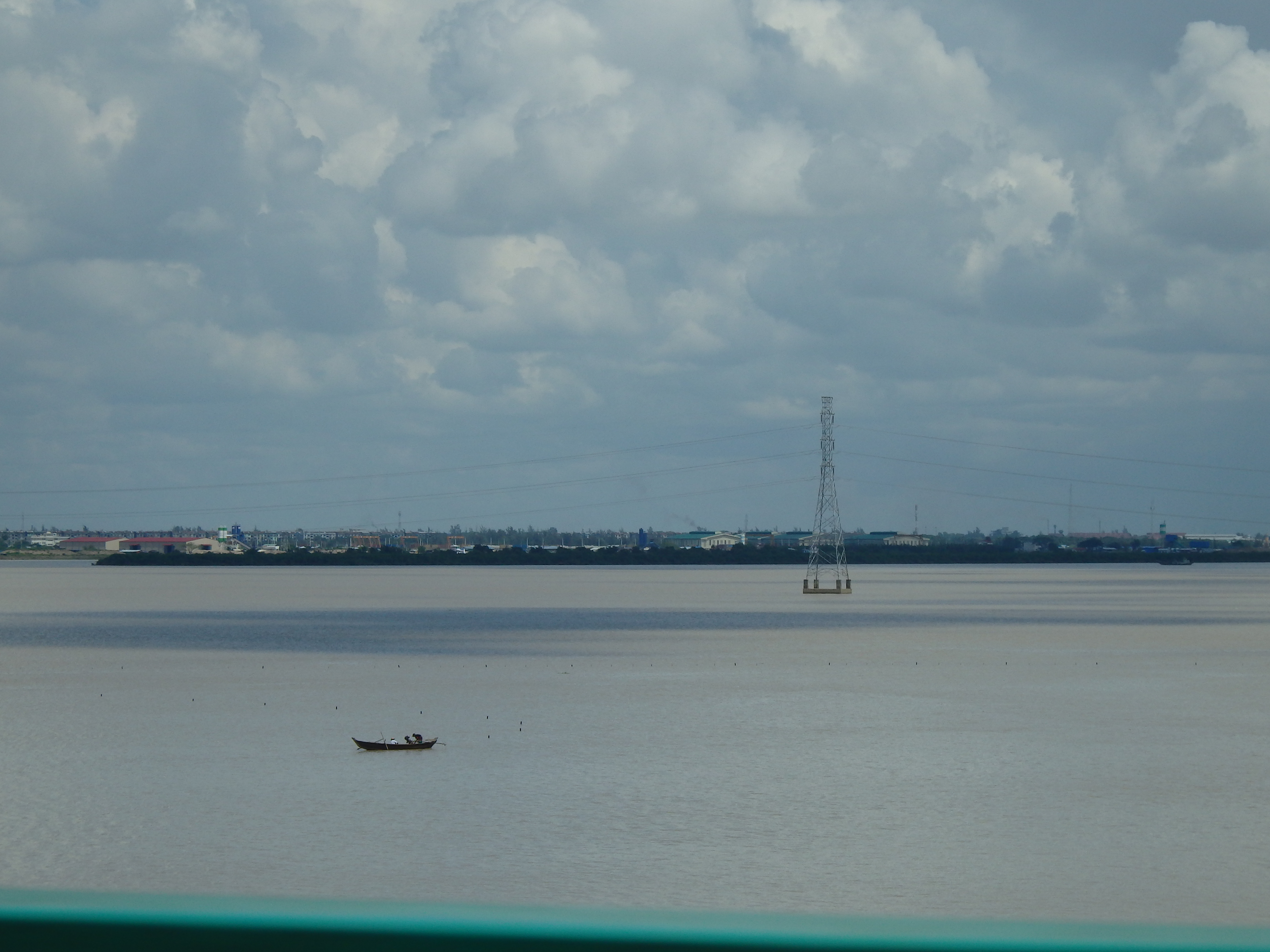 Unnamed Road, Thanlyin, Myanmar (Burma)